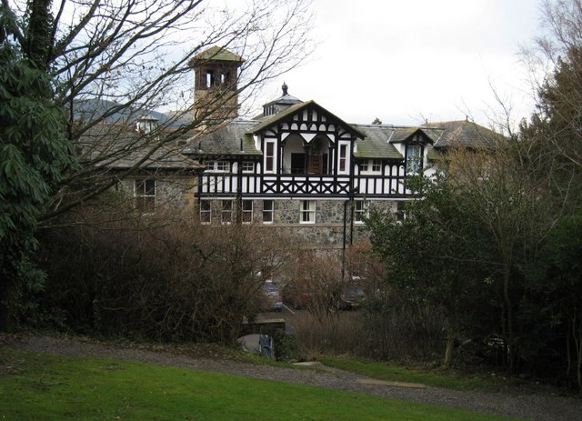 Rear view of Bassenfell Manor The tower and open balcony below, seen from above the courtyard at the back of this Christian Centre.